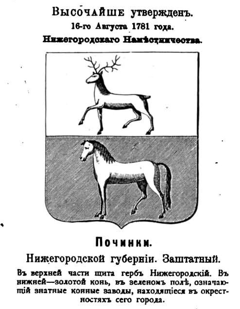 Pochinki (Nizhny Novgorod Governorate), coat of arms (1781)